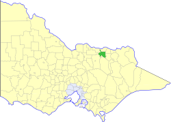 Location of the Shire of Wangaratta within Victoria.